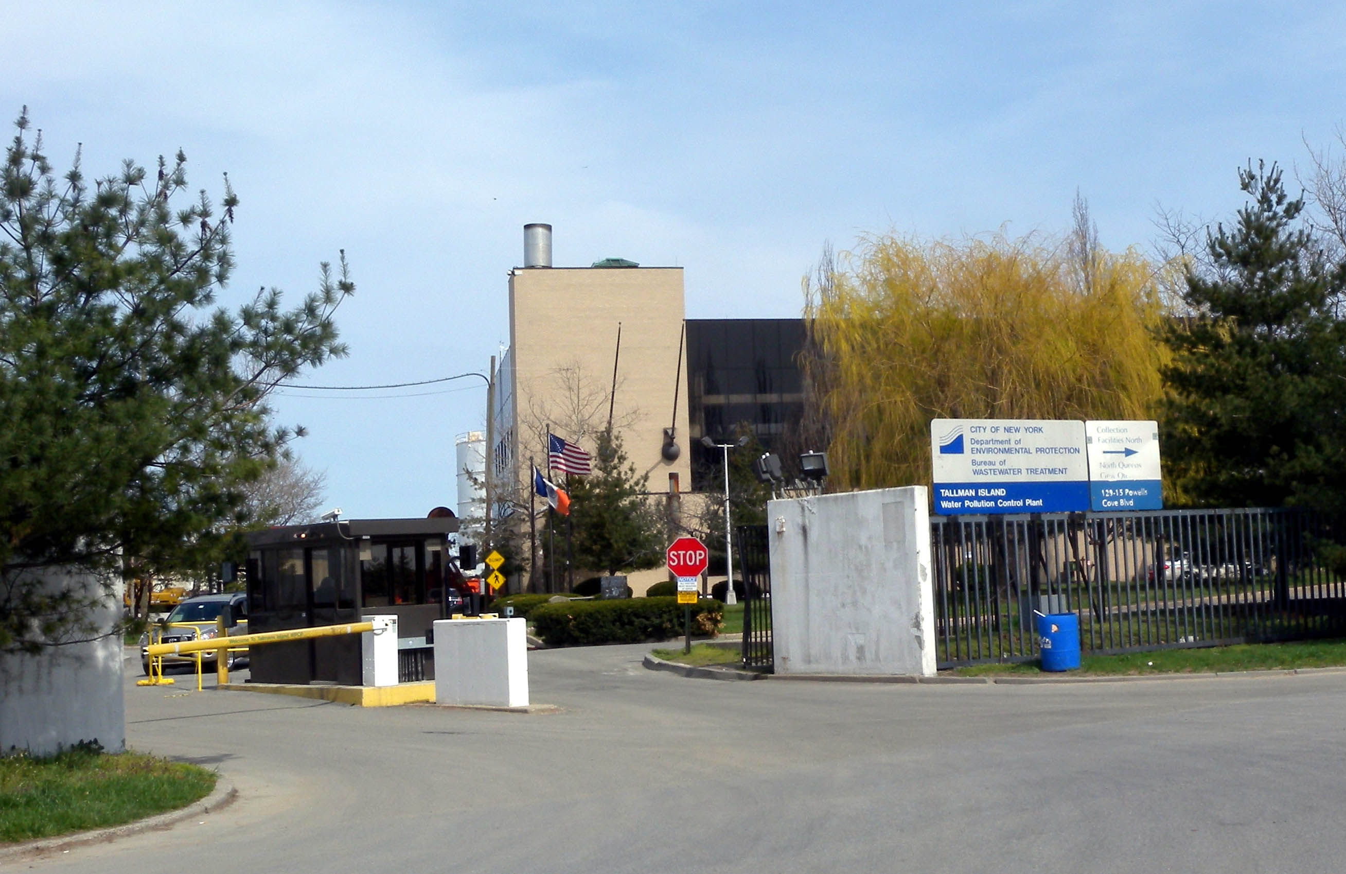 Looking northeast at Tallman Island sewage treatment plant of New York City Department of Environmental Protection on a cloudy midday.